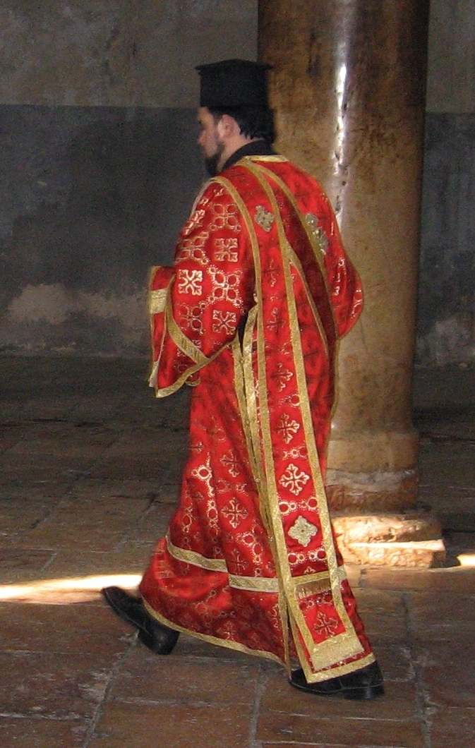 Greek Orthodox deacon in the Church of the Nativity, Bethlehem. Photo by Eric Stoltz.